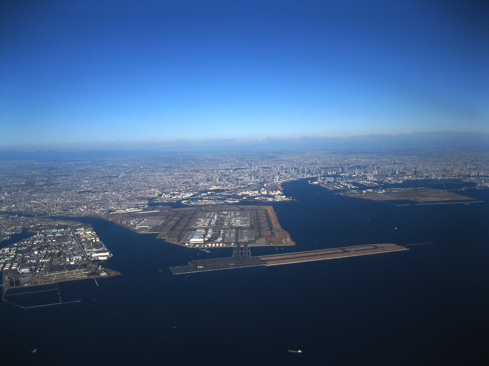 Haneda Airport,Tokyo,Japan